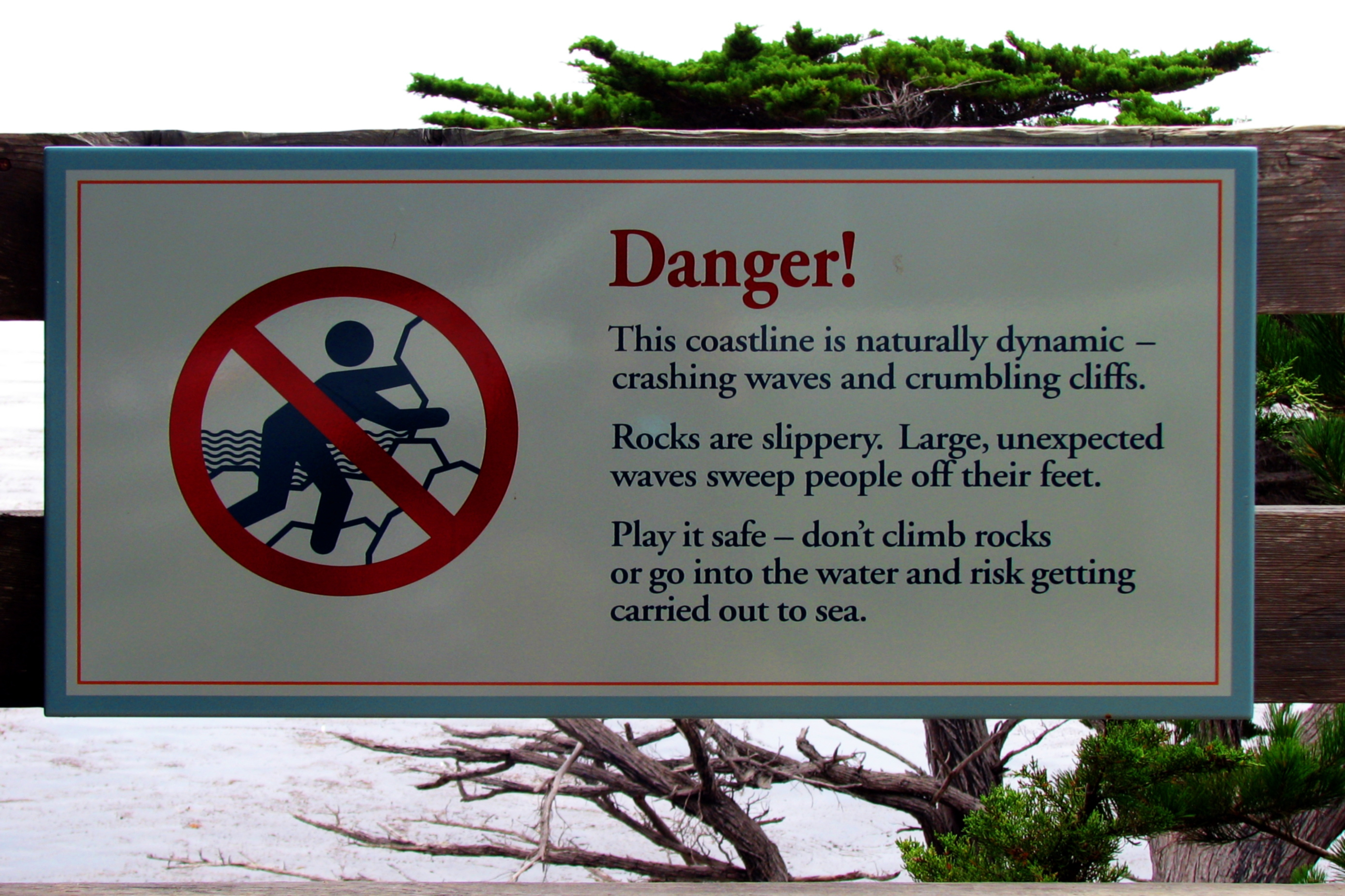 sign, danger, 17-Mile Drive, road trip, the west